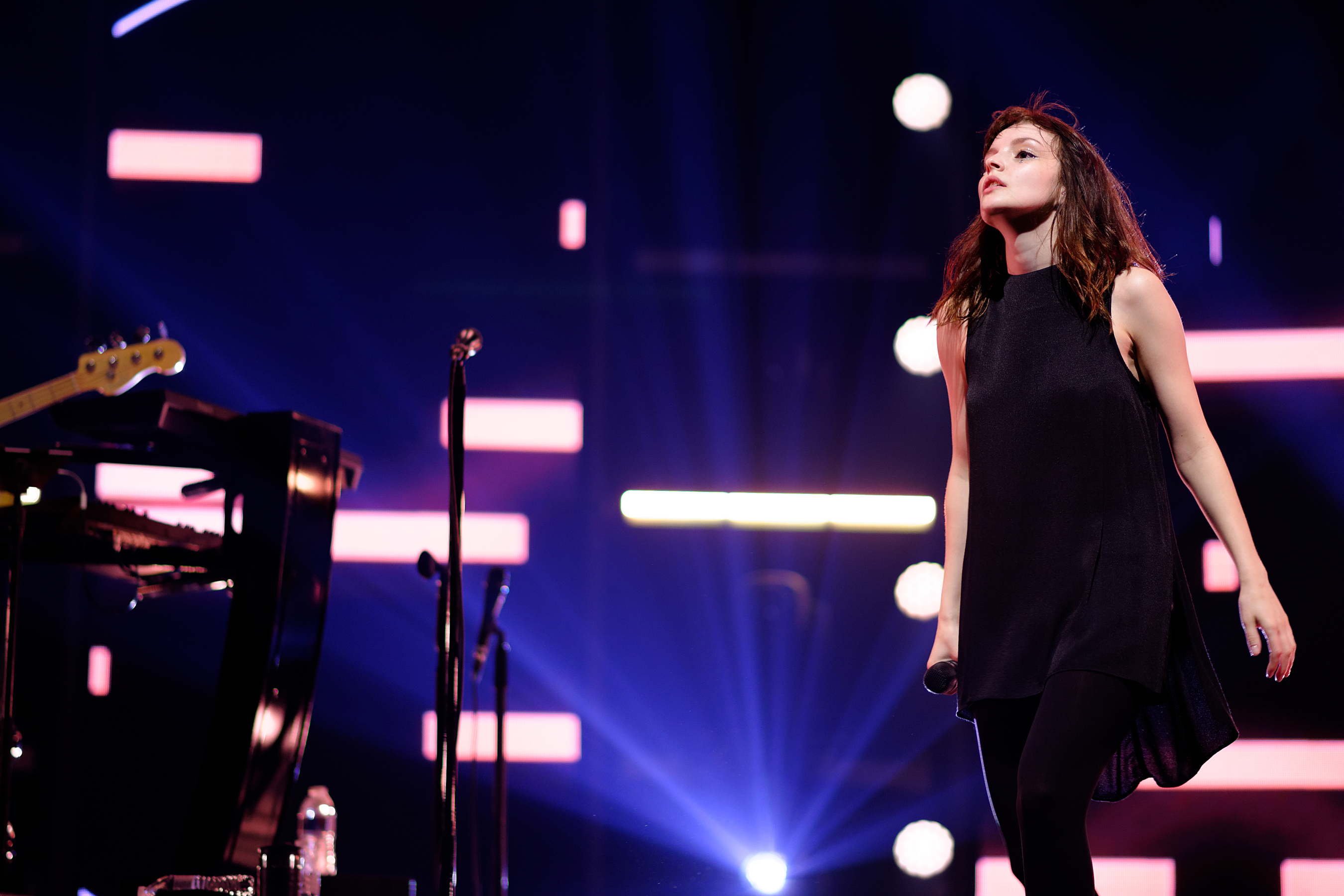 Chvrches performing live at The Shrine Auditorium & Expo Hall in Los Angeles California on Saturday October 17th, 2015.